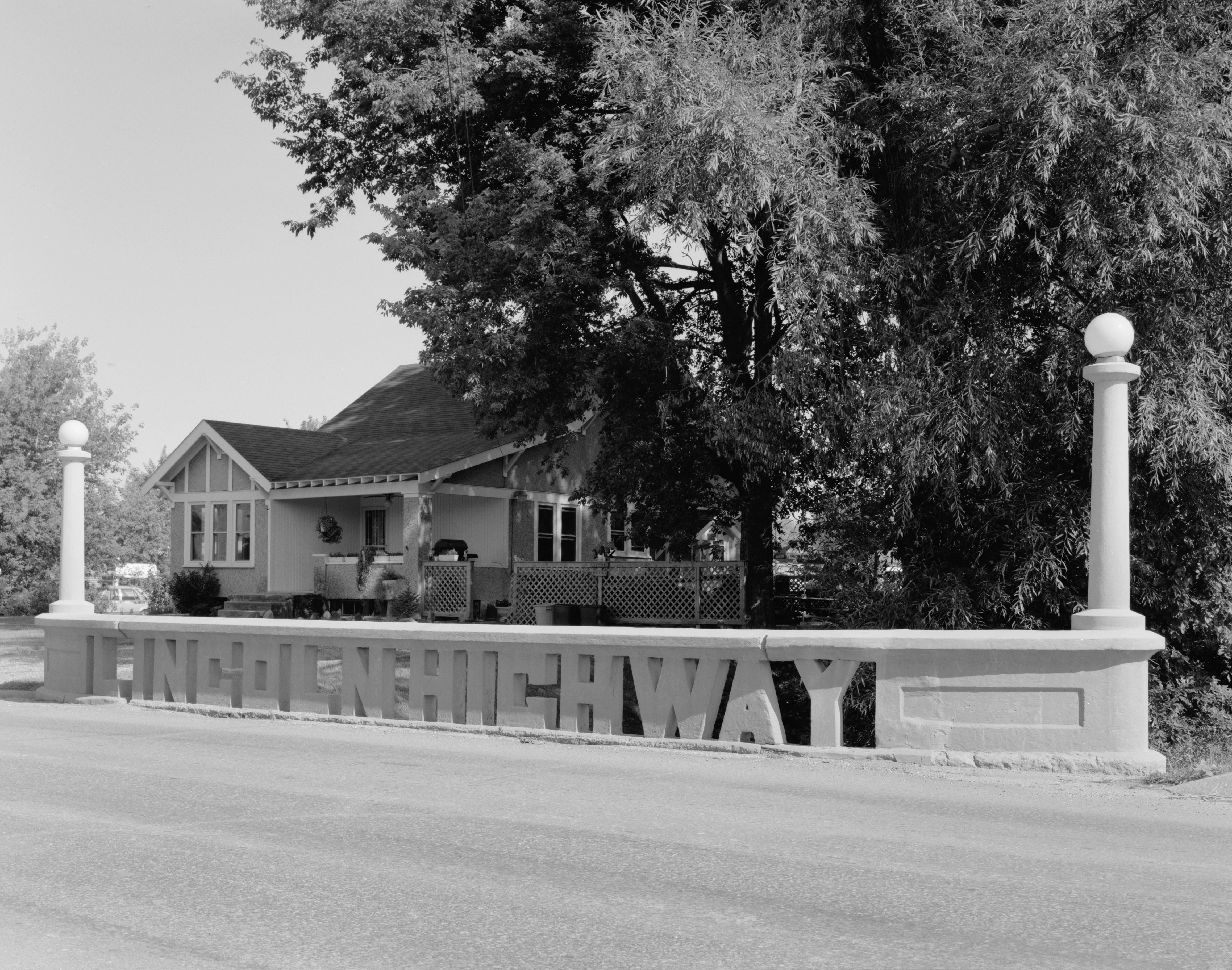 Lincoln Highway Bridge, spanning Mud Creek at Fifth Street, Tama County, Iowa